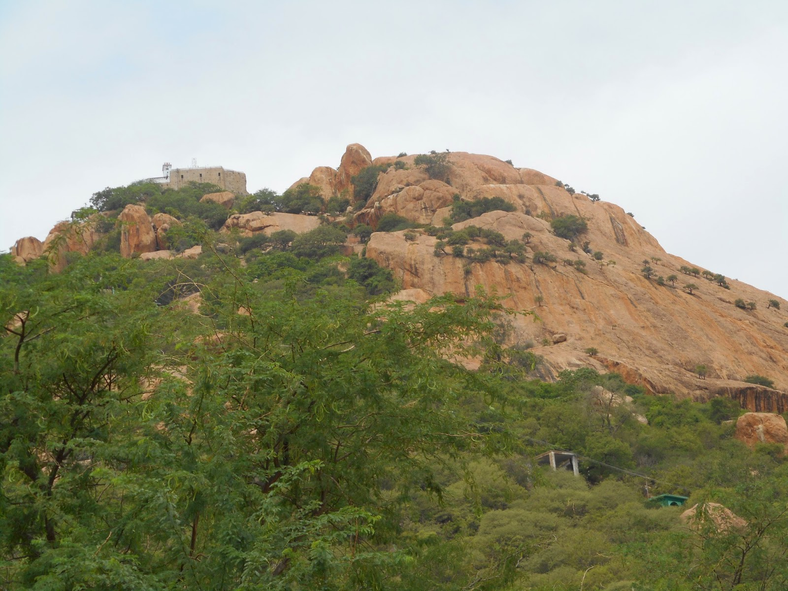 Ayyarmalai அய்யர்மலை